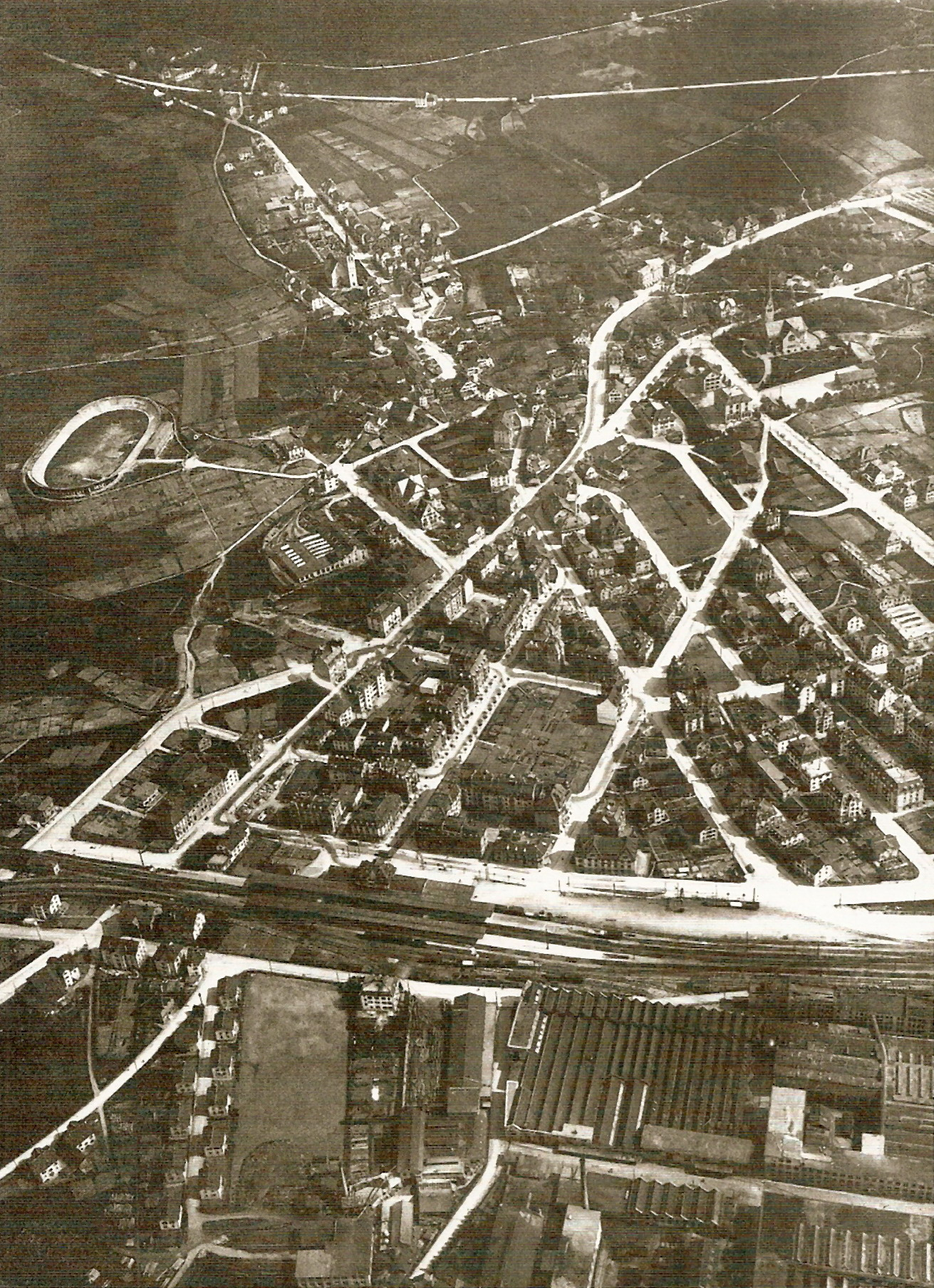 Zürich-Oerlikon respectively Oerlikon train station (Switzerland), aerial photography by Walter Mittelholzer (1894–1937)